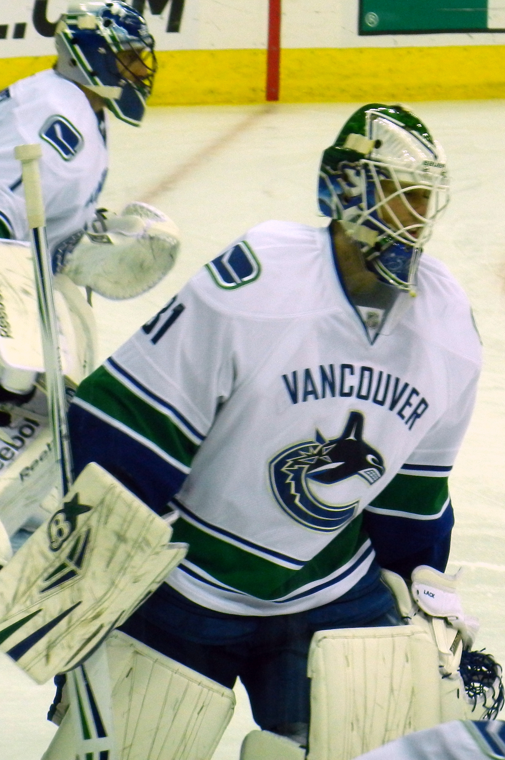 Eddie Läck in pre-game warm-up for the Vancouver Canucks during the 2013-14 season